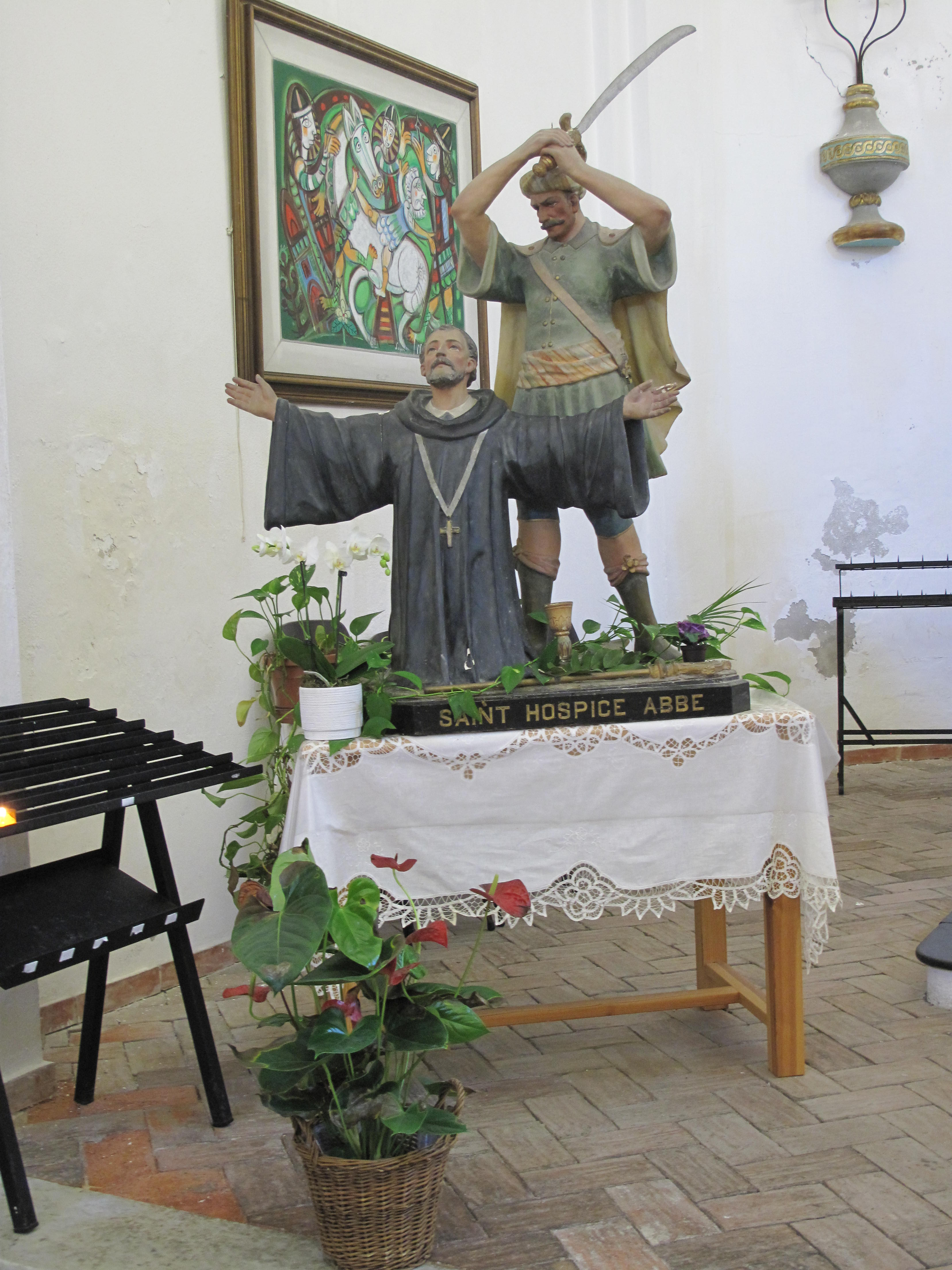 Statue of Saint-Hospice in the eponym chapel in Saint-Jean-Cap-Ferrat (Alpes-Maritimes, France).